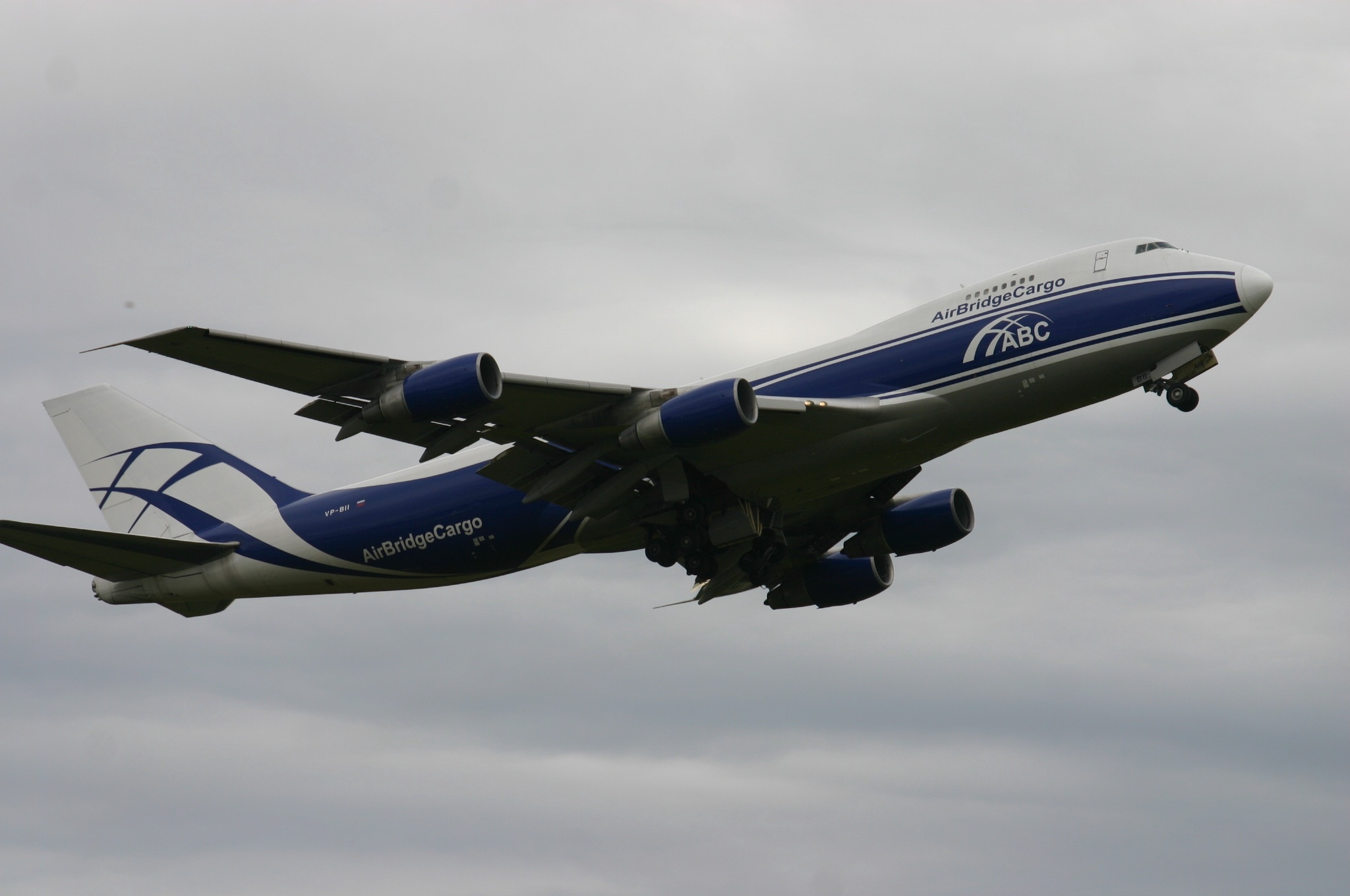 At Krasnoyarsk Yemelyanovo